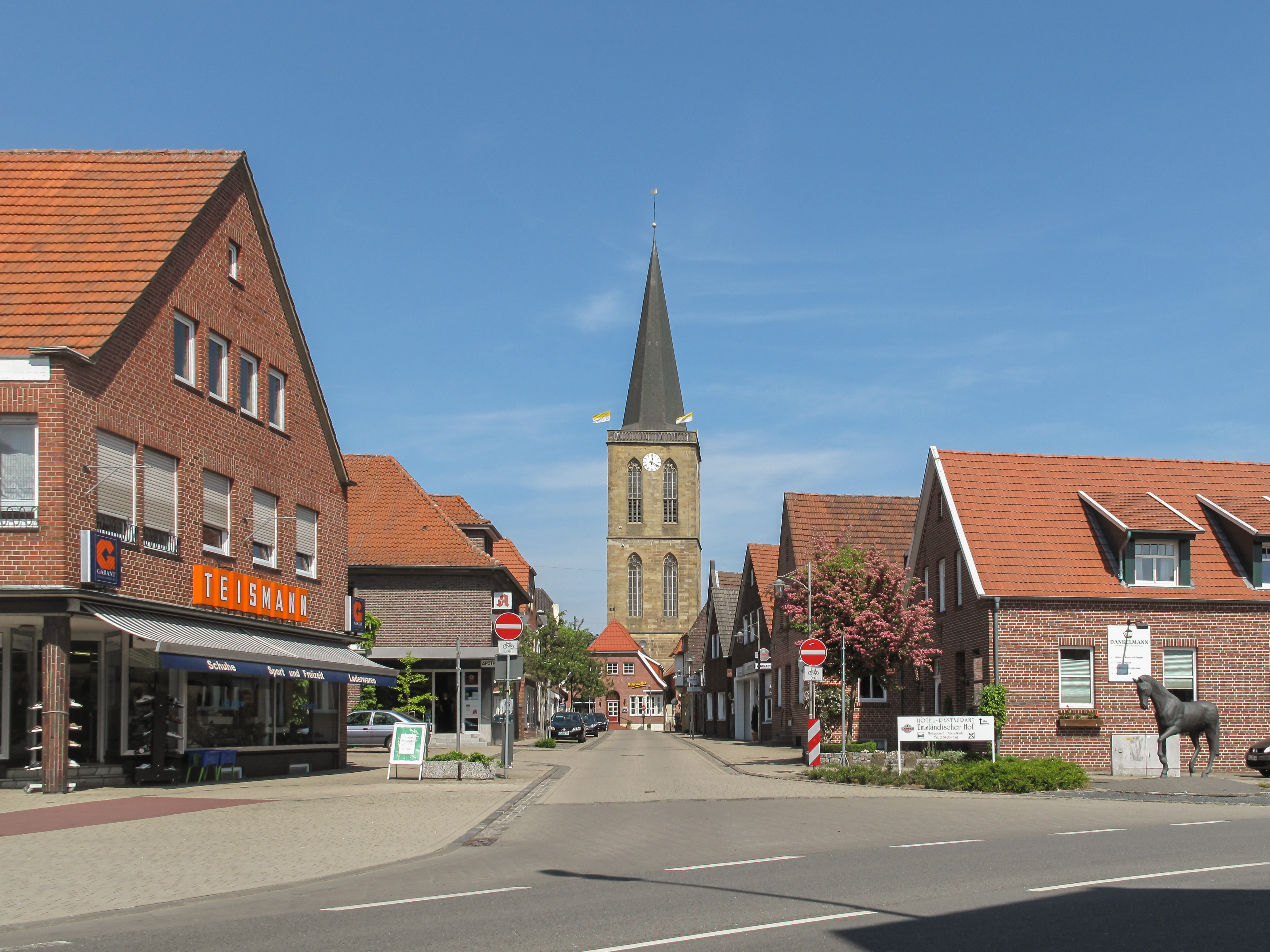 Emsbüren, church in the street